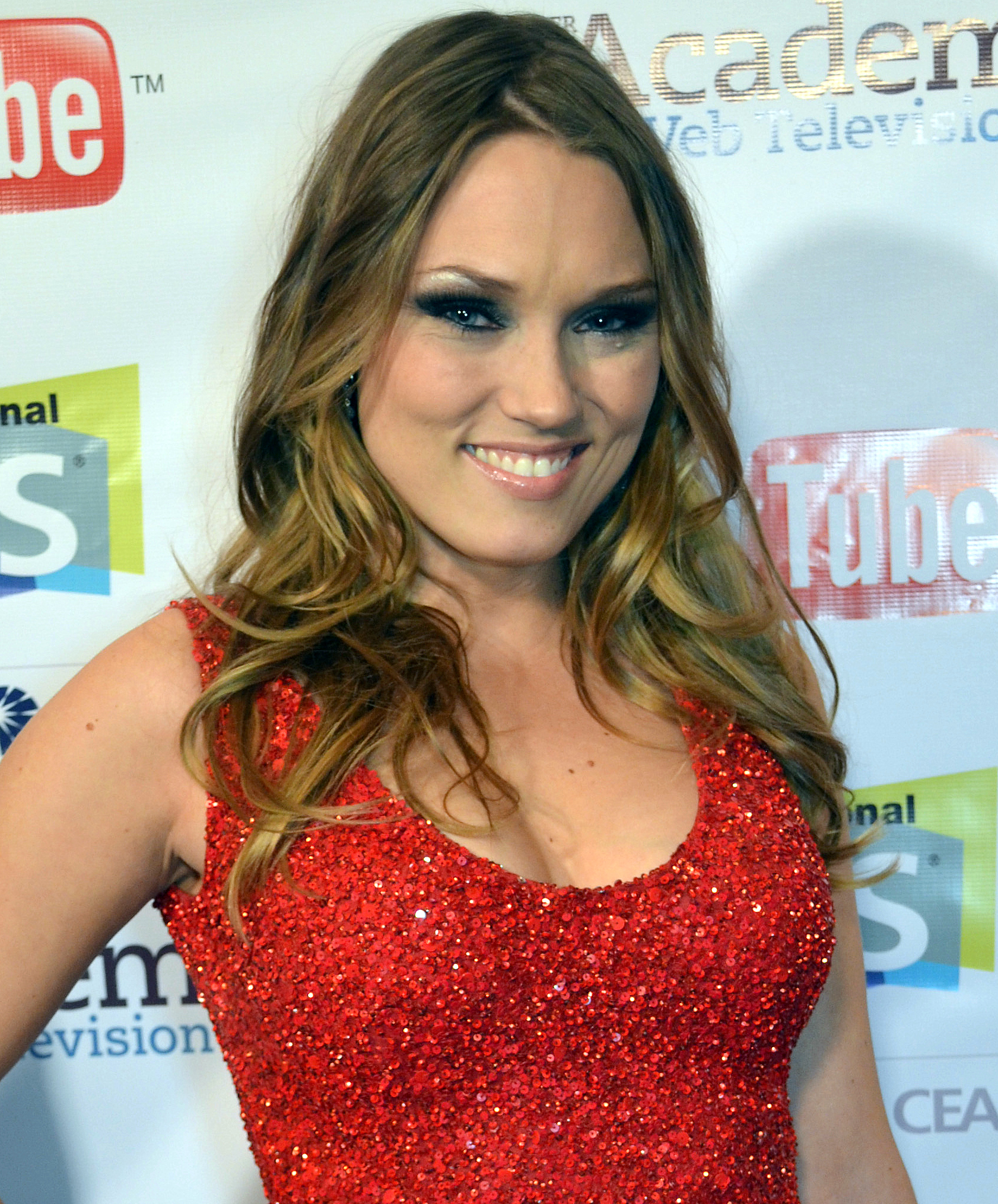 Clare Grant at the International Academy of Web Television (IAWTV) Awards Red Carpet: CES 2012 Las Vegas.